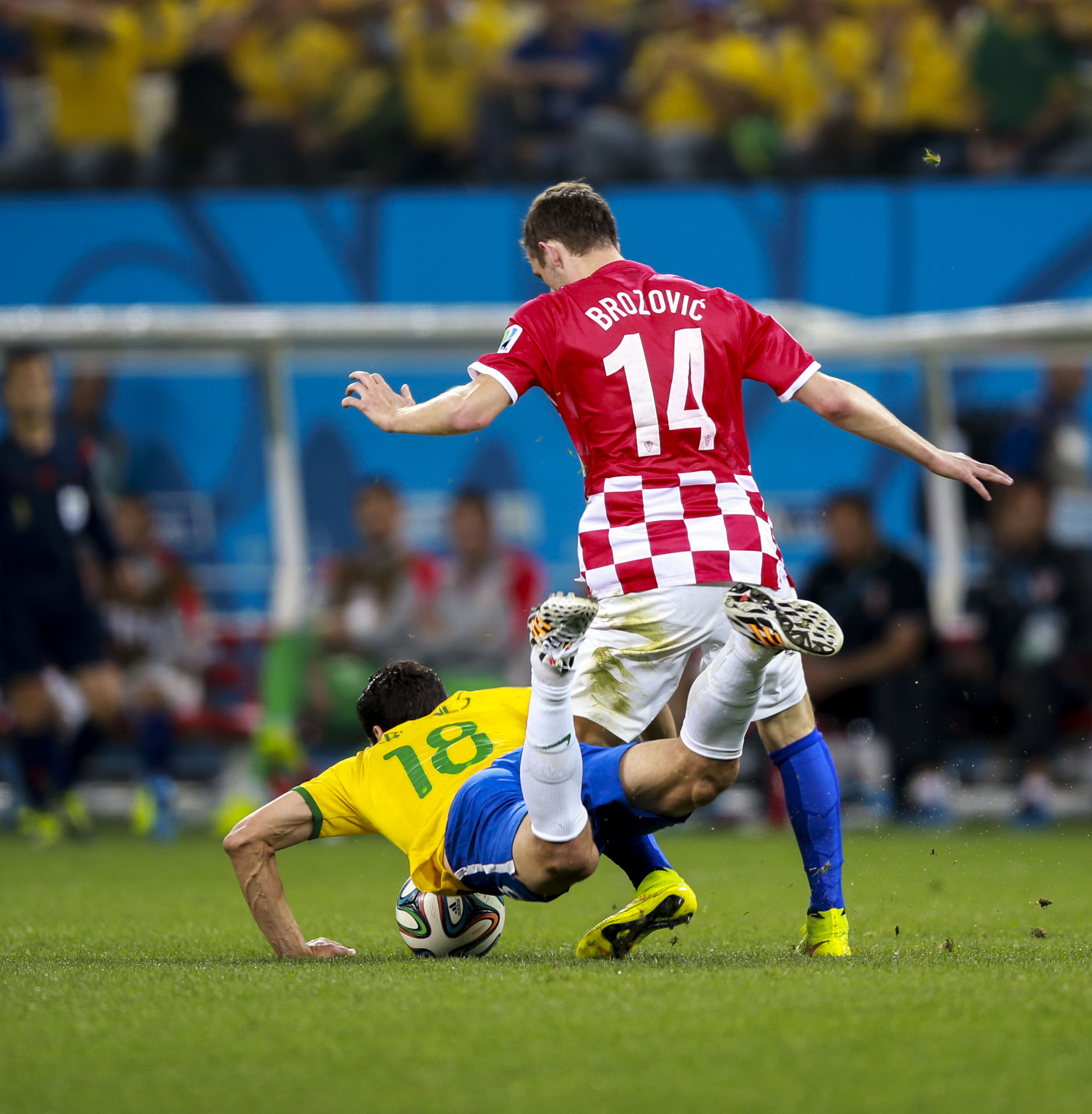 Brazil and Croatia match at the FIFA World Cup 2014-06-12